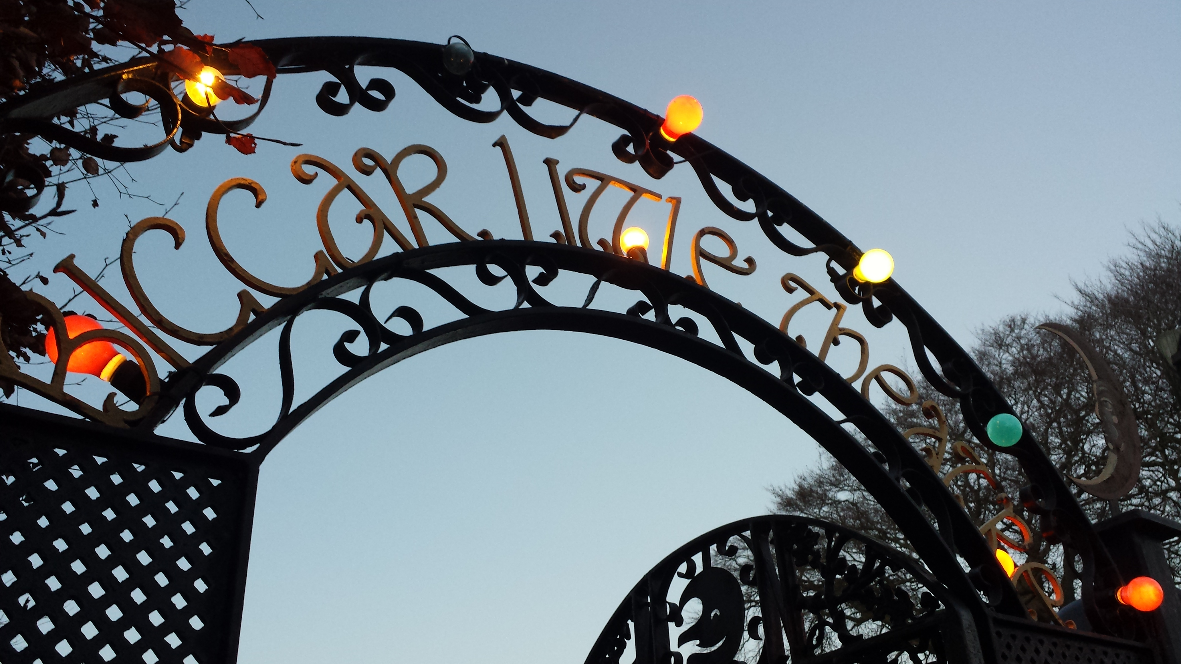 Biggar puppet theatre sign. Openwork iron sign, with christmas lights.